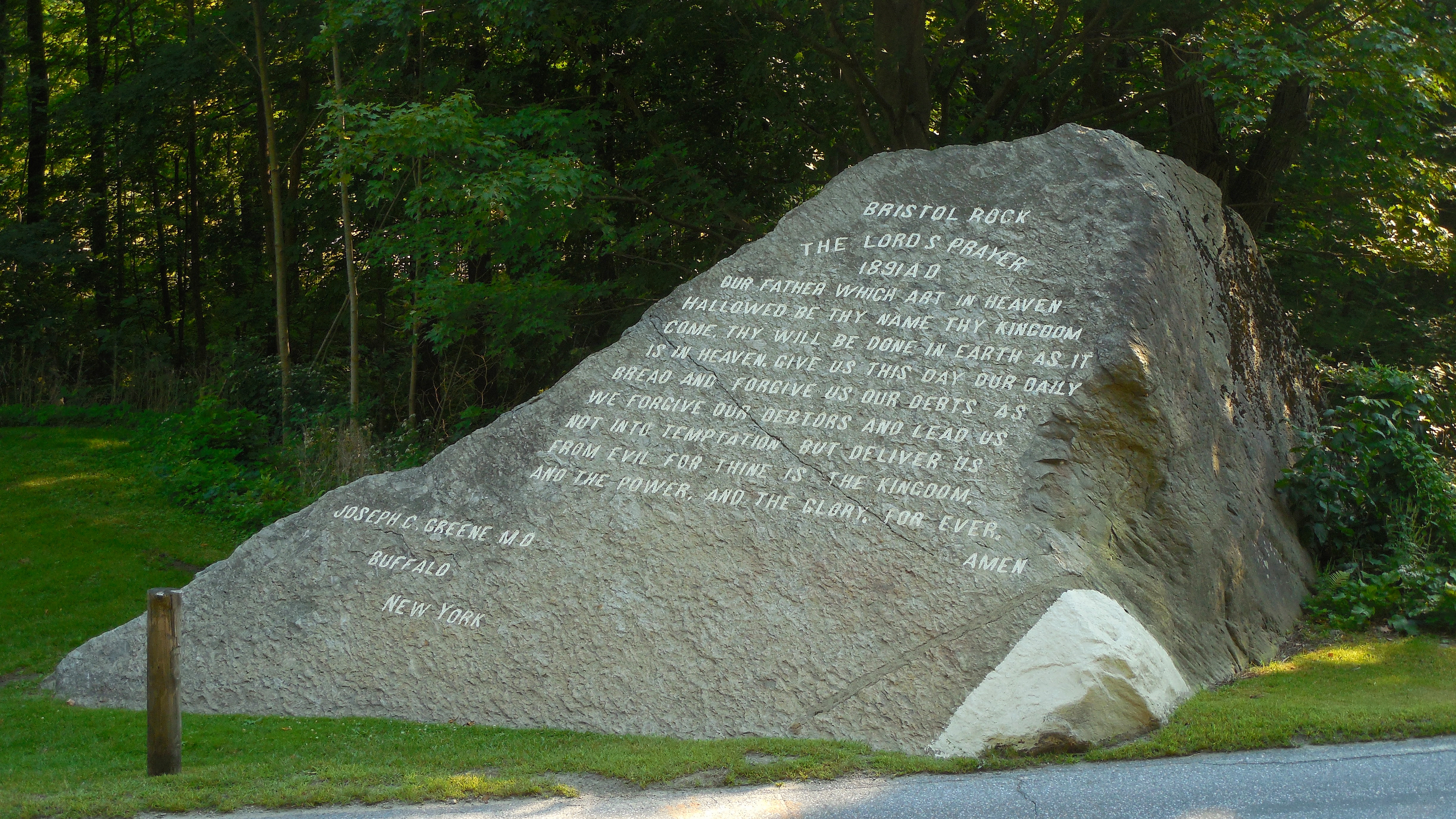 Bristol Rock (otherwise known as Lord's Prayer Rock) on Vermont Route 17 in Bristol, Vermont, 3 Sep 2016. Commissioned in 1891 by Joseph C. Greene, M.D. This monument was added to the Vermont Division for Historic Preservation State Register on 10 September 1980 (Historic Sites & Structures Survey # 0103-47).